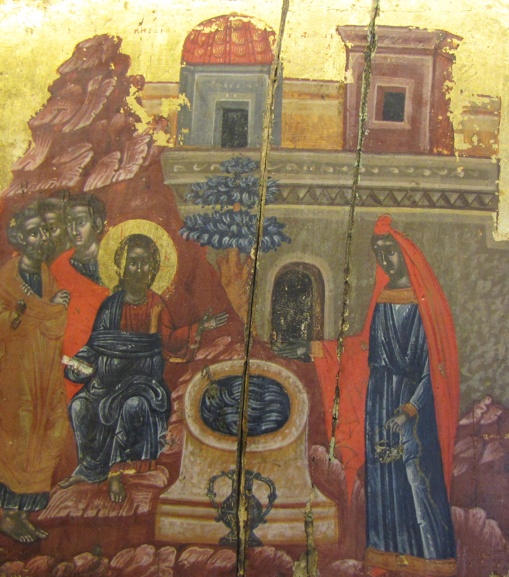 Icon from the monastery Agia Triada, Sparmos